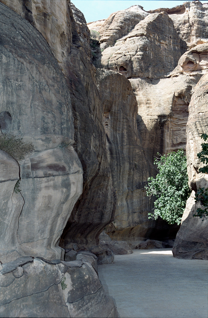 Petra, The Siq, aqueduct